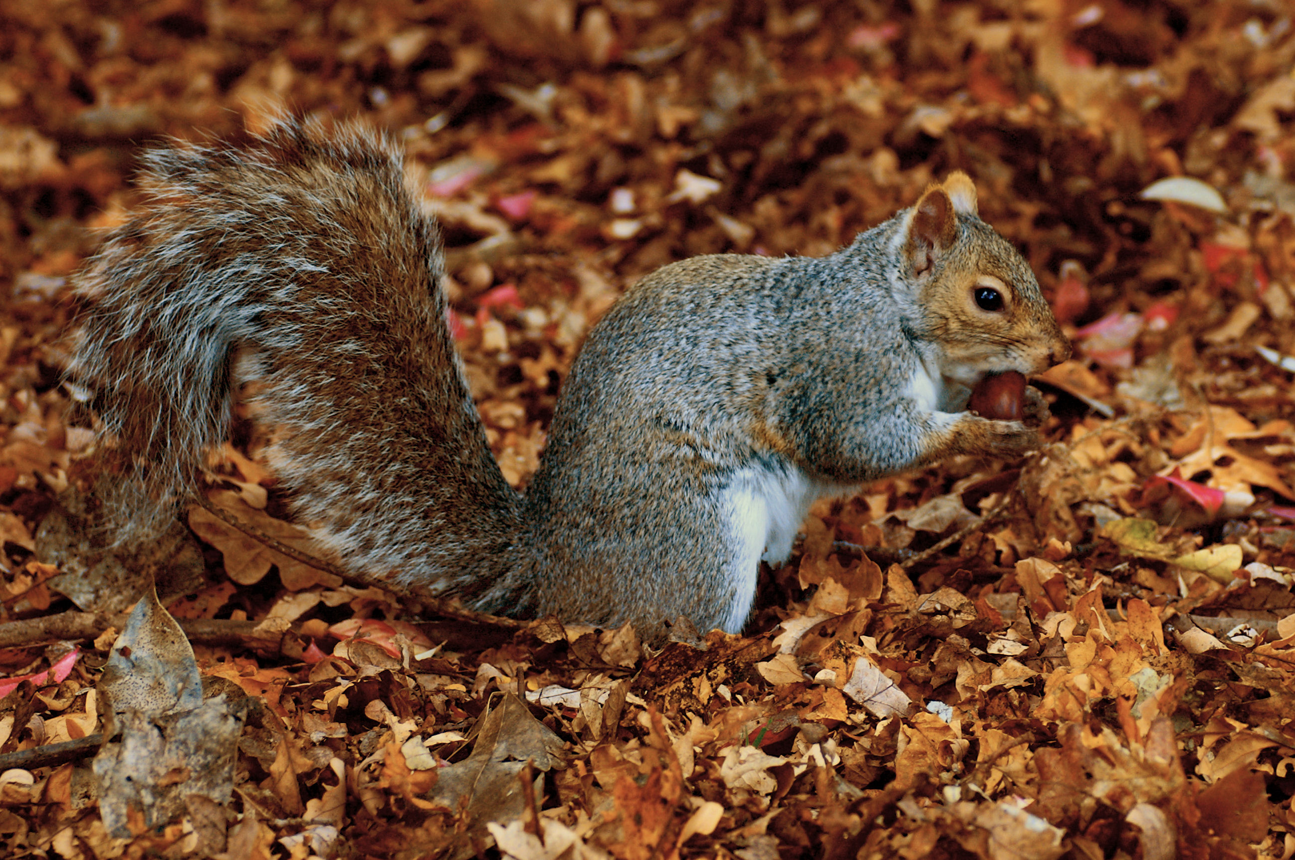 An Eastern Grey Squirrel photographed in Beacon Hill Park, Victoria, BC, Canada. User:KirinX/Photo